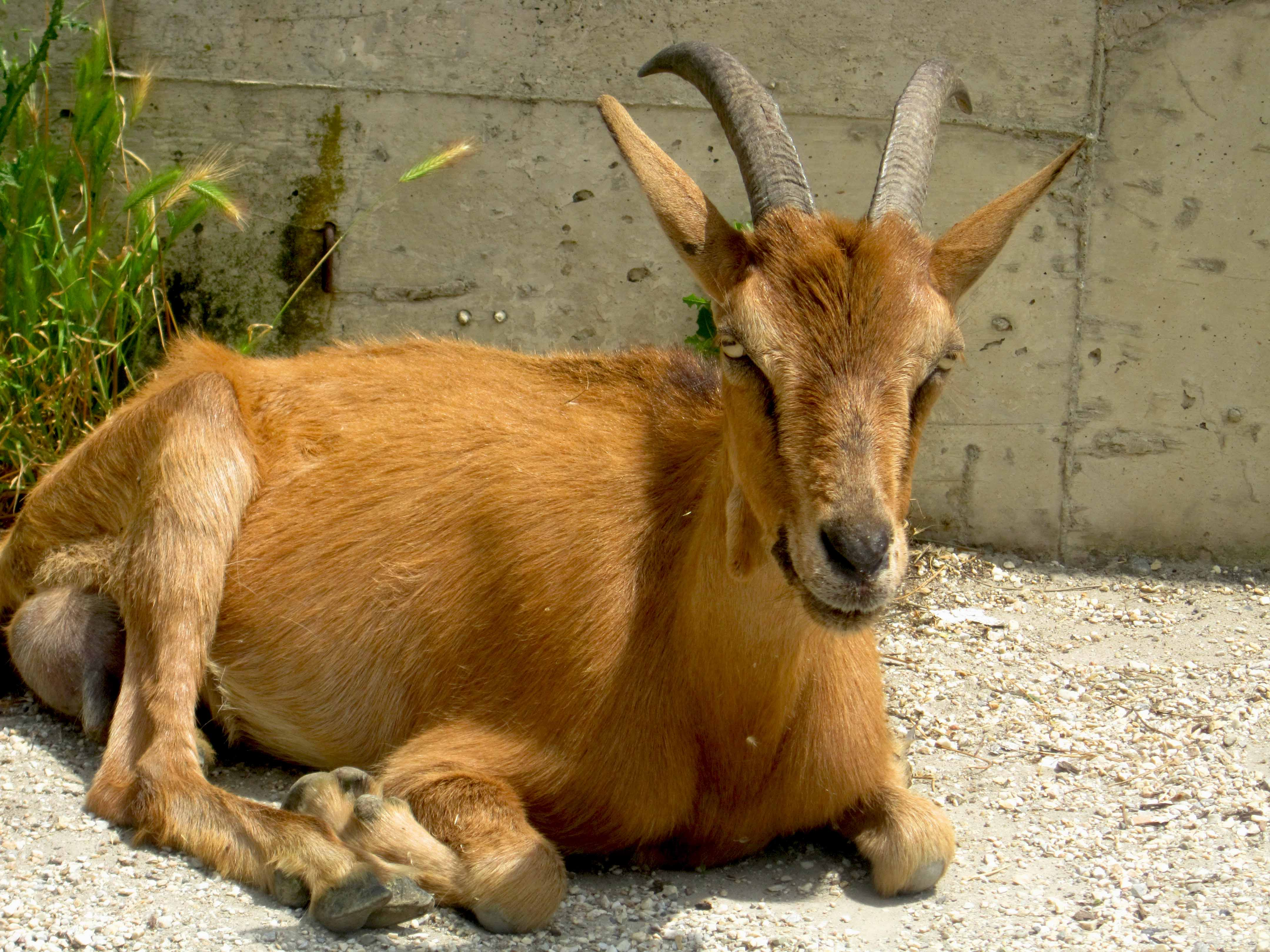 In the way to Katlanovo natural spa place ,we can meet many animals